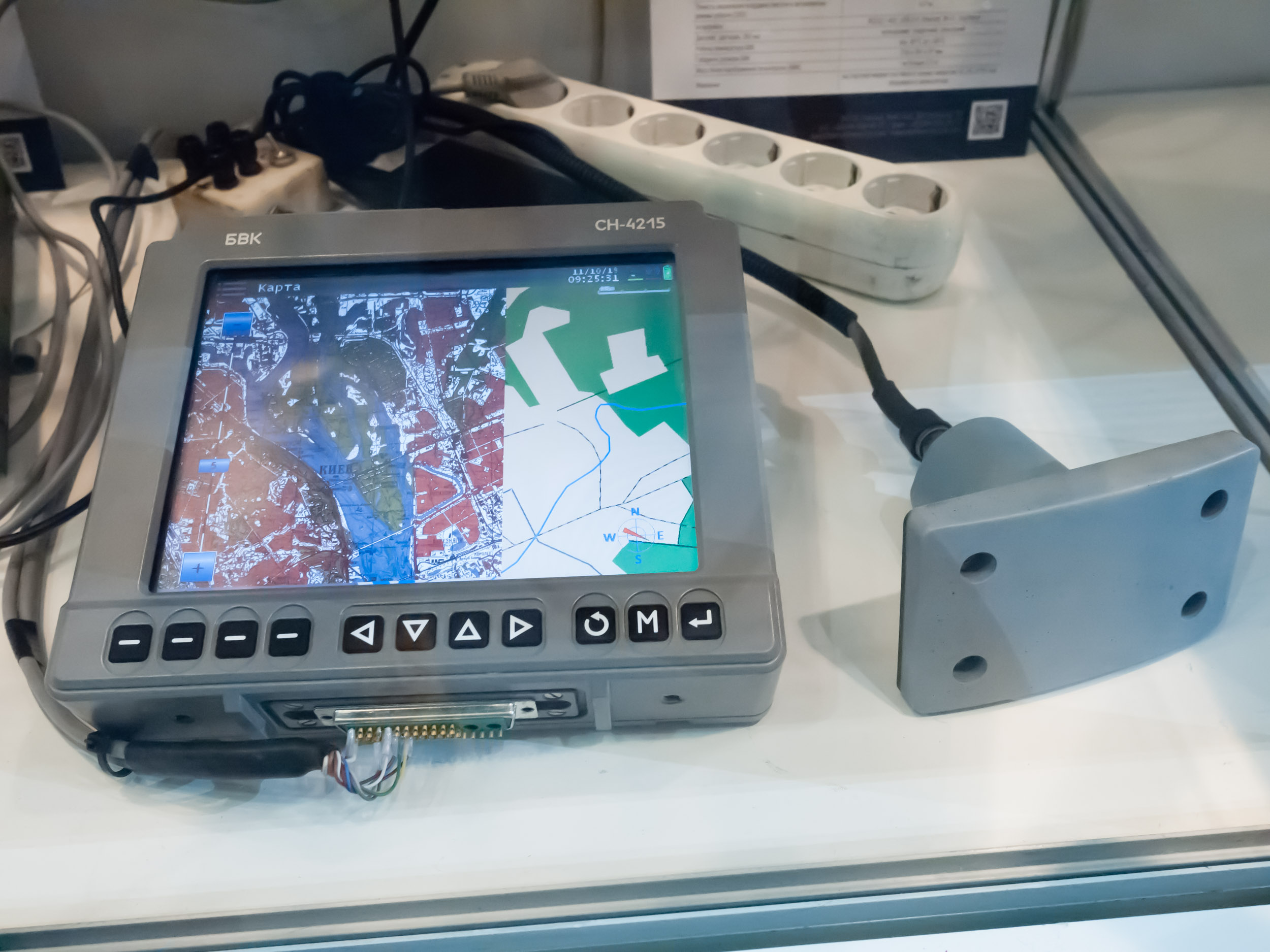 Orizon-navigation (Ukraine) Bazalt SN-4215 navigation device, 'Zbroya ta Bezpeka' military fair, Kyiv, Ukraine, 2018